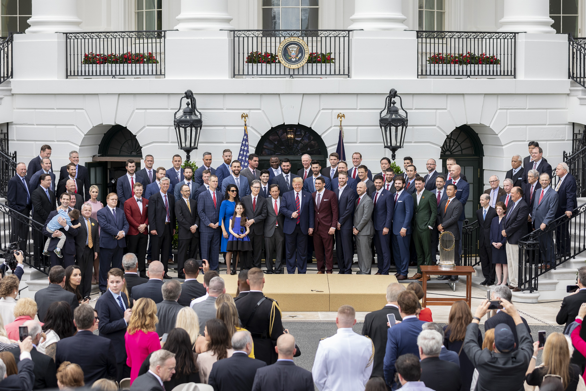 President Donald J. Trump welcomes the 2018 World Series Champion Boston Red Sox baseball team Thursday, May 9, 2019, at ceremonies on the South Portico entrance of the White House. (Official White House Photo by Amy Rossetti)